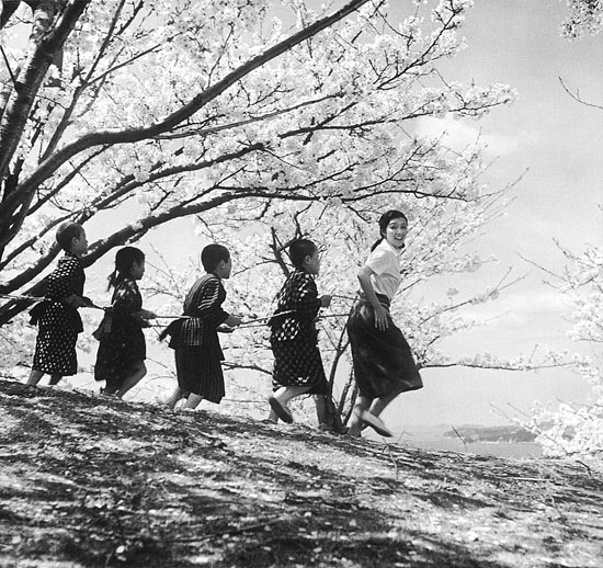 A studio still of the 1954 Japanese film Twenty-Four Eyes (二十四の瞳, Nijū-shi no Hitomi)